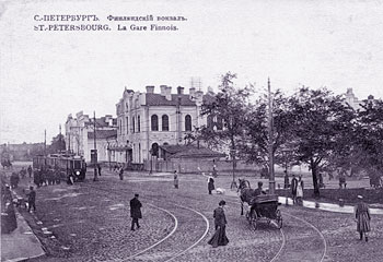 Saint Petersburg (Russia), Finlyandsky Rail Terminal.